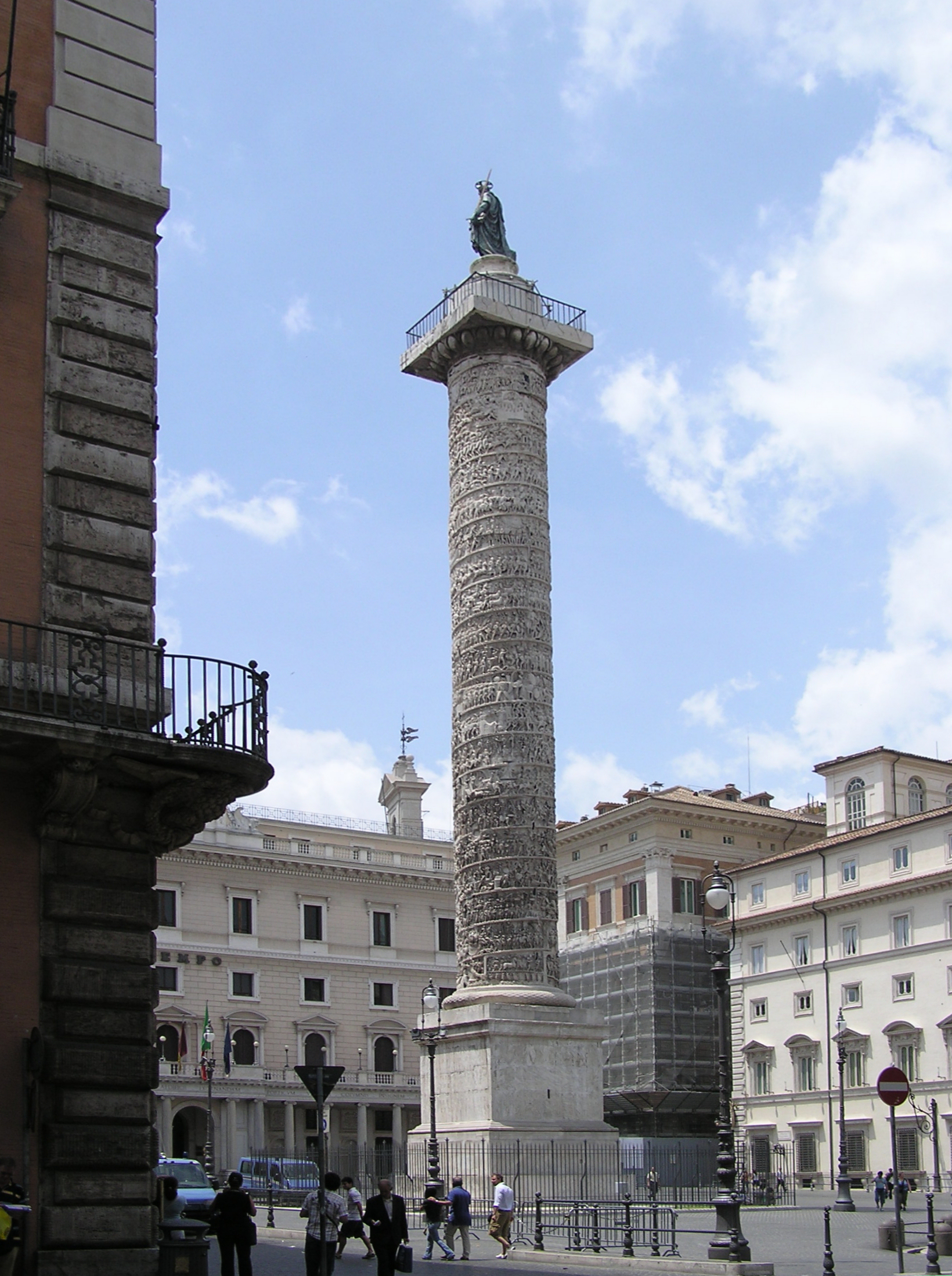 Column of Marcus Aurelius, in Piazza Colonna, Rome, Italy.